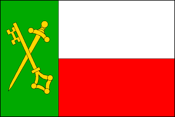 Municipal flag of Petrovice u Sušice village, Klatovy District, Czech Republic.